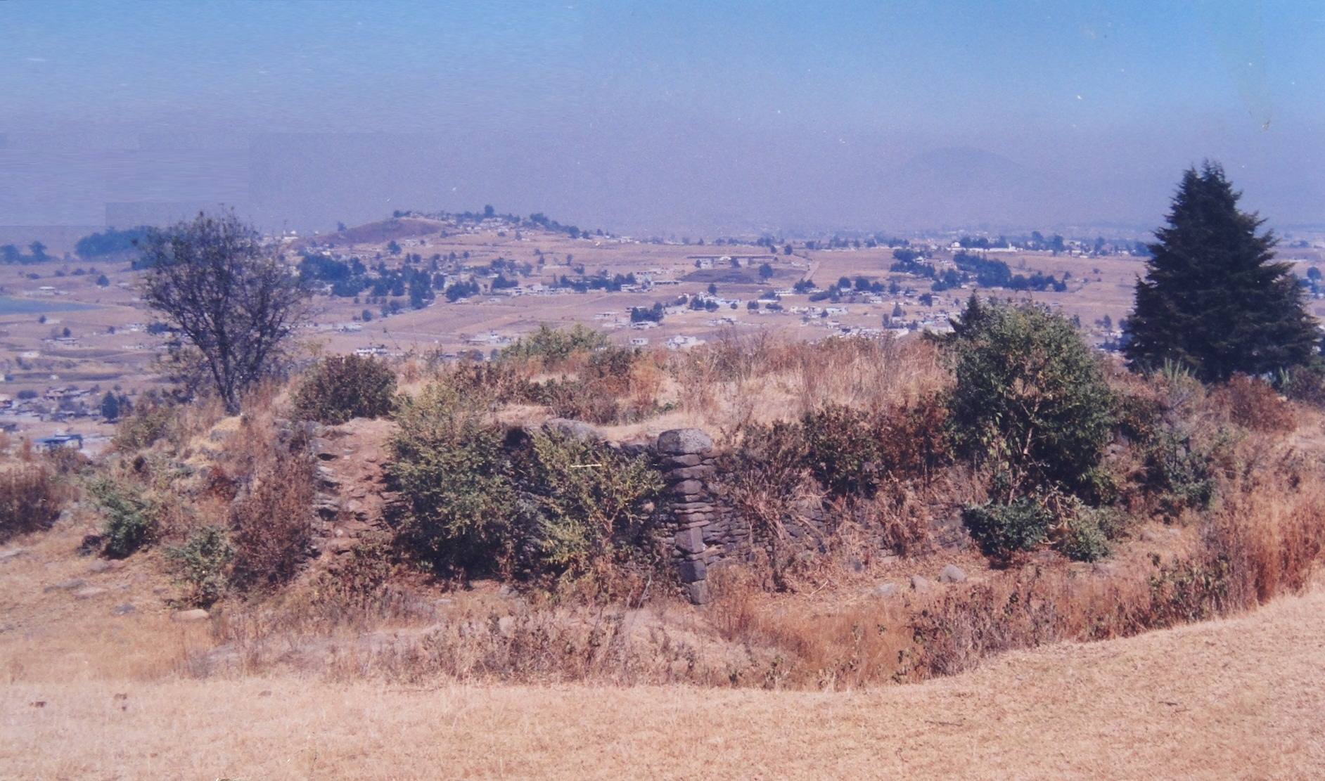 Panteon, Structures 5 & 6 (before restoration)